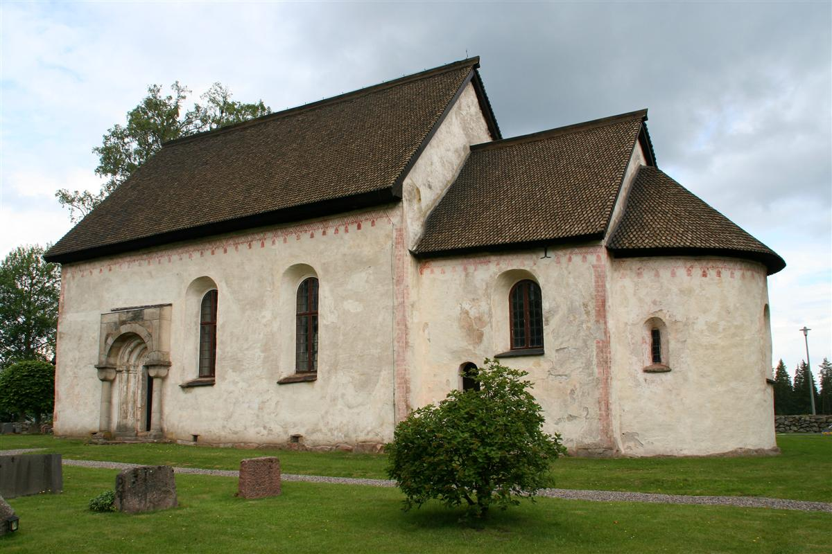 Lannaskede Old Church